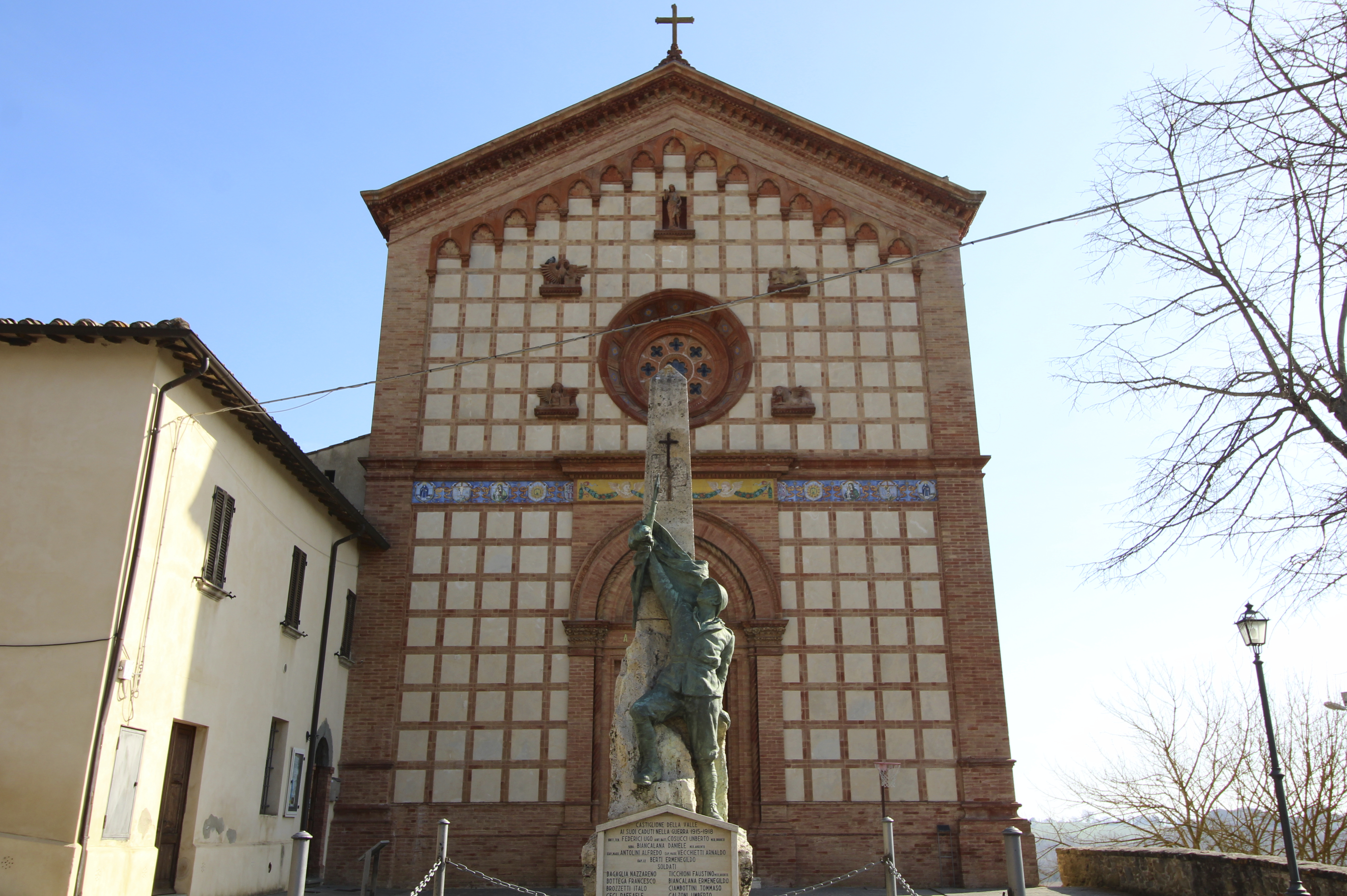 Church San Giovanni Battista, Castiglione della Valle, hamlet of Marsciano, Umbria, Italy